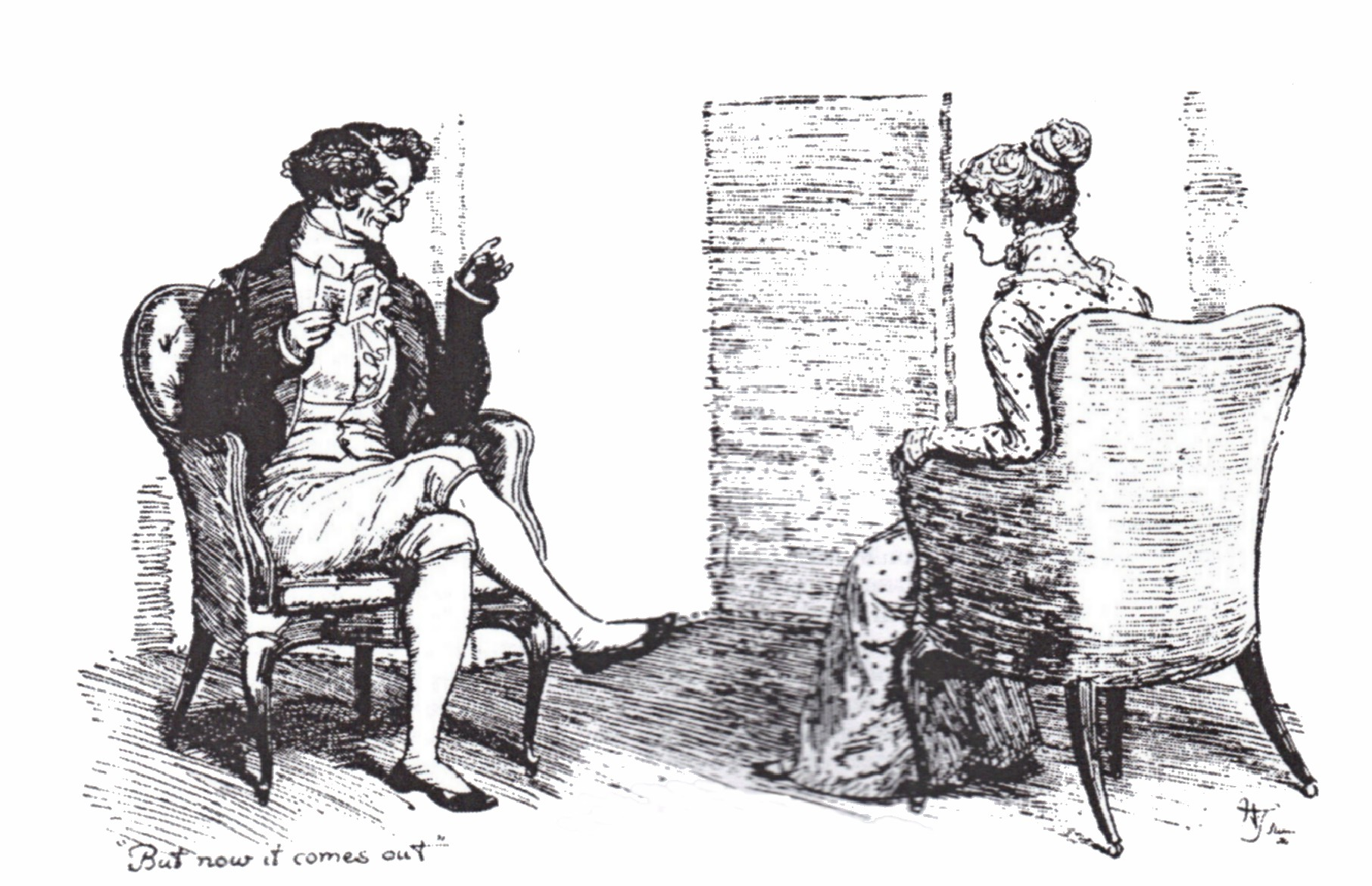 Illustration for Pride and Prejudice, ch. 57: "But now it come out".